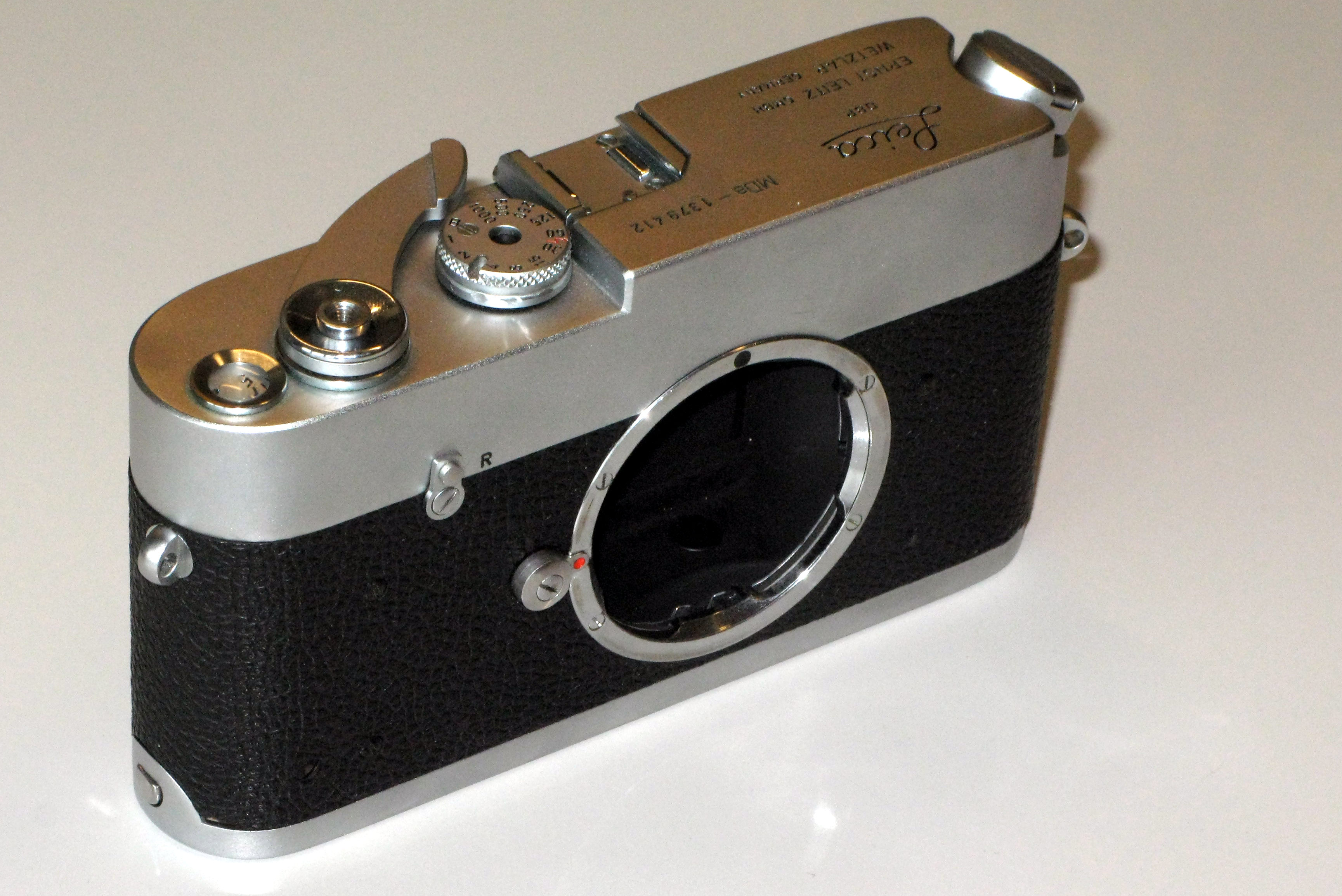 Leica MDa